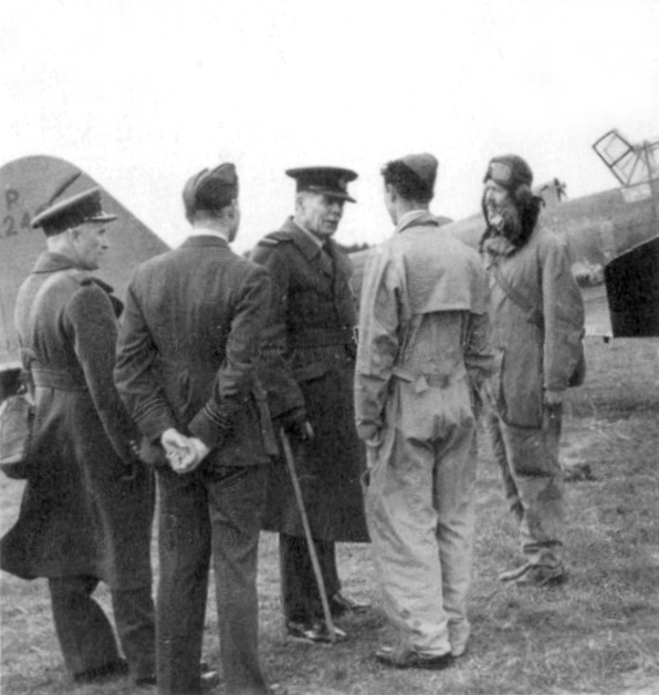 Marshal of the RAF Hugh Trenchard with 12 Squadron personnel in France.